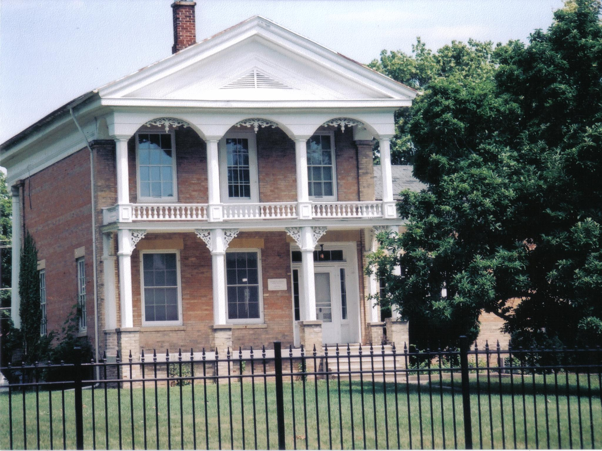 The south facade of the Count's House in McHenry, Illinois. I took this photograph myself.